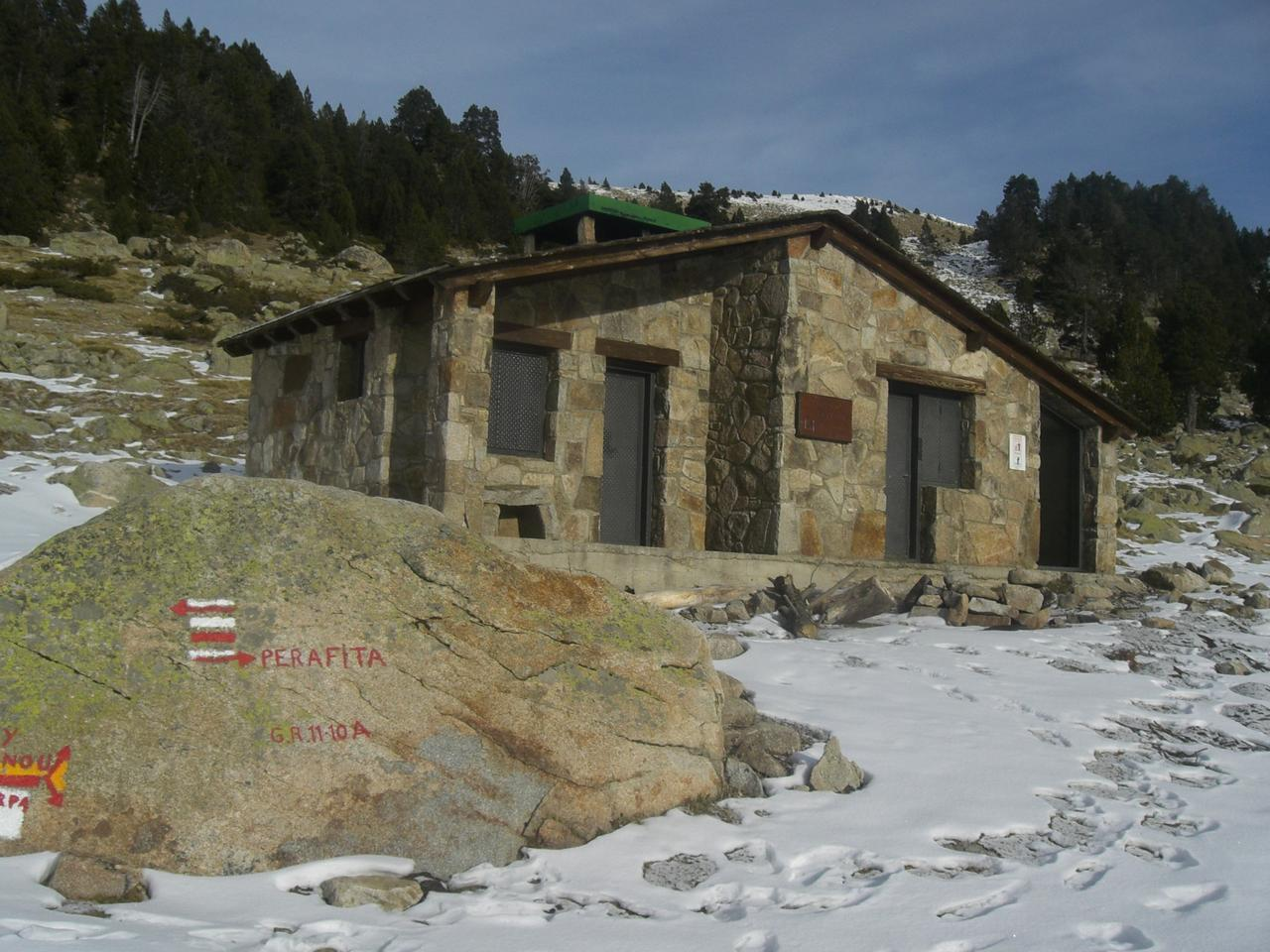 A refuge of Perafita in Escaldes-Engordany, Andorra. This is one of the registered places as Madriu-Perafita-Claror Valley of UNESCO World Heritage.